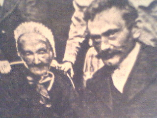 Siegfried Alkan with his mother Johanna in an en:1899 picture -- source